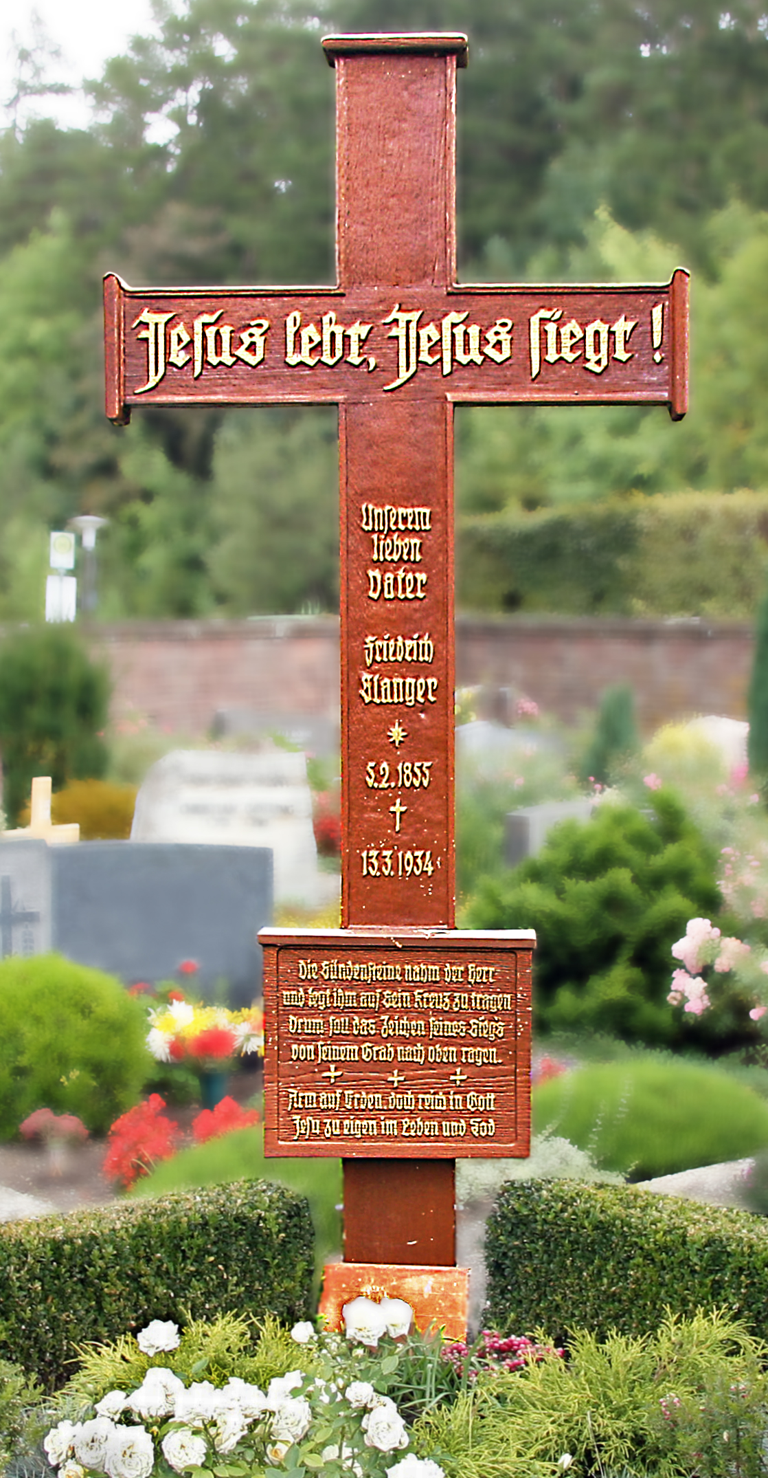 Wooden grave cross of Friedrich Stanger on the cemetery in Möttlingen, 75378 Bad Liebenzell